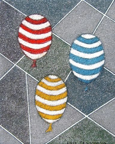 "Finally things had lost their weightiness" by Erik Pevernagie , oil on canvas, 100 x 80 cm The colorful balloons of our little daily issues are philosophical contradictions of lightness and weightiness. In life we have got to let loose sometimes, rather than indulging intractably in self-harm or self-mistreatment as we pursue impervious dreams. Weightiness can be the incarnation of a sense of responsibility. Responsibility can be very versatile and can be interpreted in many different ways. Everybody seems to have a different kind of reading of accountability. When the flood is submerging the entire country, no raindrop may feel responsible. The true responsible, however, will do whatever it takes to hold each droplet accountable when the storm water inundates the fences of our living. Weightiness can be the demonstration of wisdom. It can be the outcome of an insightful reflection and the emanation of a quest for the sense of life. Gravity may mean coercion when it is felt as trouble or horrendous nuisance. Let us loosen, then, the balloons. Let us thrust aside, with a dash of poetry and inventiveness, all the “questions with a single answer”, because the starkness of our imagination can earmark a bountiful timeline to conjure up a widening array of groovy and relevant replies to any impendent insidious questions. Above all, let us not ourselves be pinned down by ill-intentioned creatures with incongruent and disputable forethoughts, who would like to hinder us from breaking free from potential physical and spiritual bondage. . If we are not ready to let go knotty and prickly issues in time, our mental frame can be wrecked before long. One must be prepared to get the monkey off the back soon enough and let things loose when things get stuffy. Lightness and gravity are part of our philosophy of life. They are essential options. Phenomenon: Lightness and weightiness of life Factual starting point : balloons being released